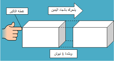 مثال بسيط عن تأثير القوة في الجسم الساكن